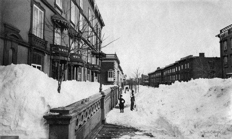 McGill College Avenue, looking south from Sherbrooke Street, Montreal, Canada1869